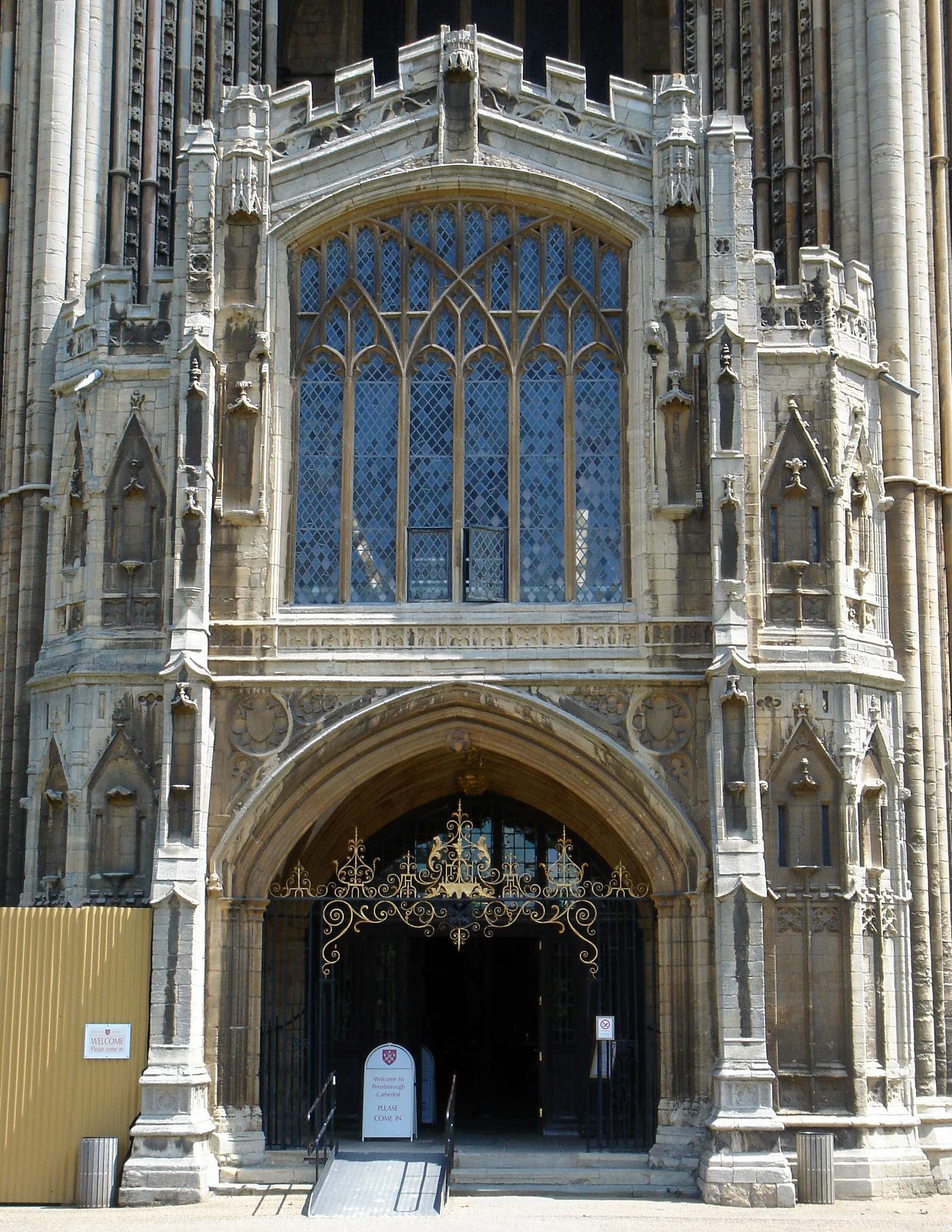 Perpendicular Gothic porch, Central Arch, West Front, Peterborough Cathedral, England